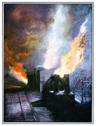 Three Bessemer converters blowing in Mobile, Alabama, at different stages. From the foreground to the background : beginning with yellow silica sparkles, decarburizing with white-bluish flame, end of blowing with brownish fumes. Painting by John Roderick Dempster MacKenzie.